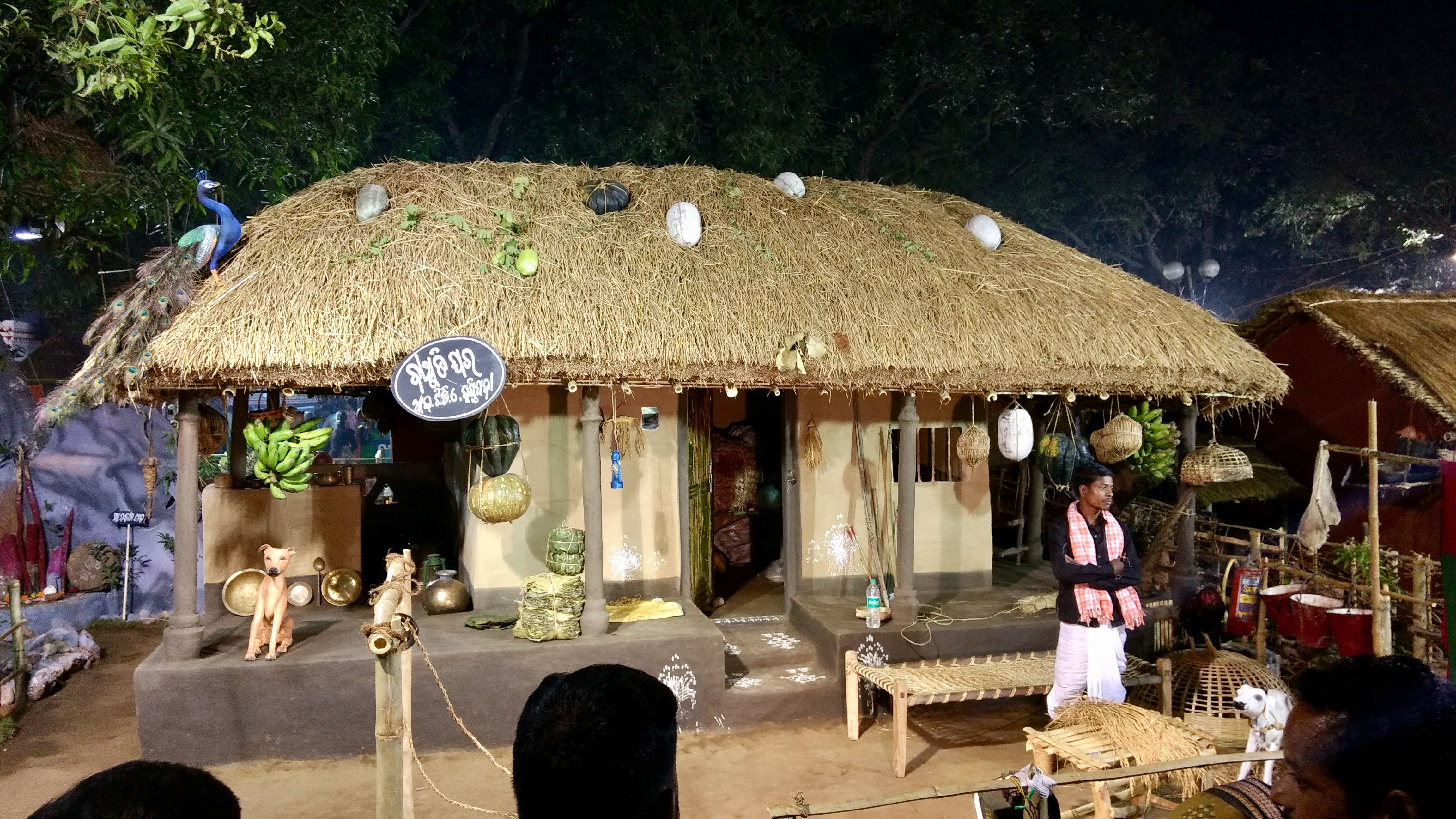 A typical house of tribals of the Bathudi community from Odisha. Image from the Adivasi Mela at Bhubaneswar. ଓଡ଼ିଆ: ଓଡ଼ିଶାର ବାଥୁଡ଼ି ଆଦିବାସୀଙ୍କ ଘର । ଭୁବନେଶ୍ୱରର ଆଦିବାସୀ ମେଳାରେ ଏହି ଫଟୋ ଉଠାଯାଇଥିଲା ।